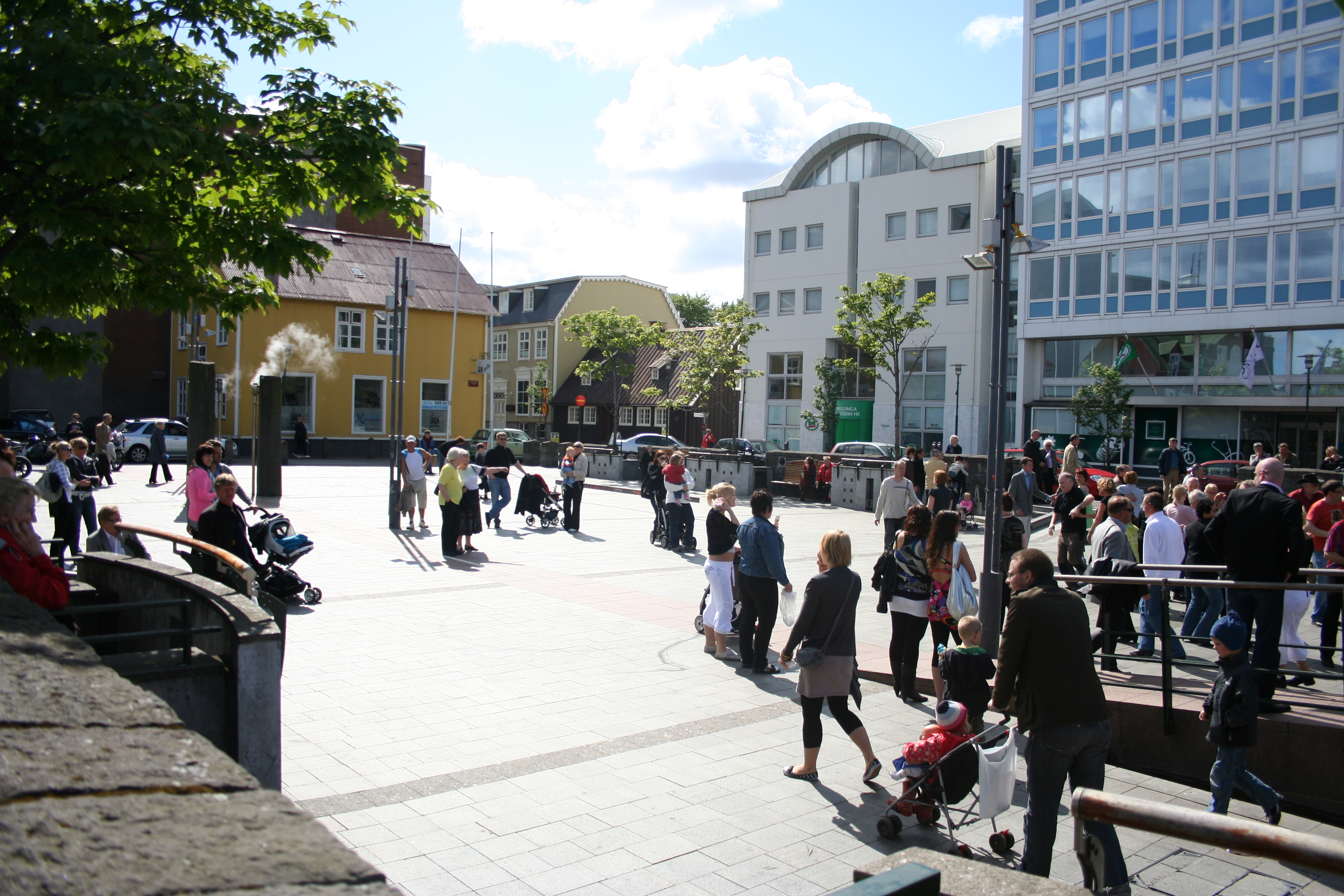 A picture of Ingólfstorg in Reykjavík